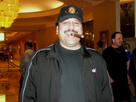 Amir Vahedi in 2005 World Series of Poker Circuit - Rio Las Vegas.